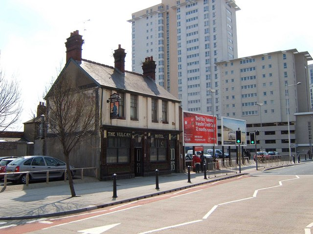 The Vulcan. This is the Vulcan a dogged survivor of the developer's avarice. However sadly it seems not for long. Due for demolition next year after a bid for "listing" failed. This classic Victorian boozer deserves to survive it is a classic of its type a link to the past in a sea of modernity. Visit or better still visit the pub and order a pint of Dark while you still can. The developers can be stopped as 773939 proves.